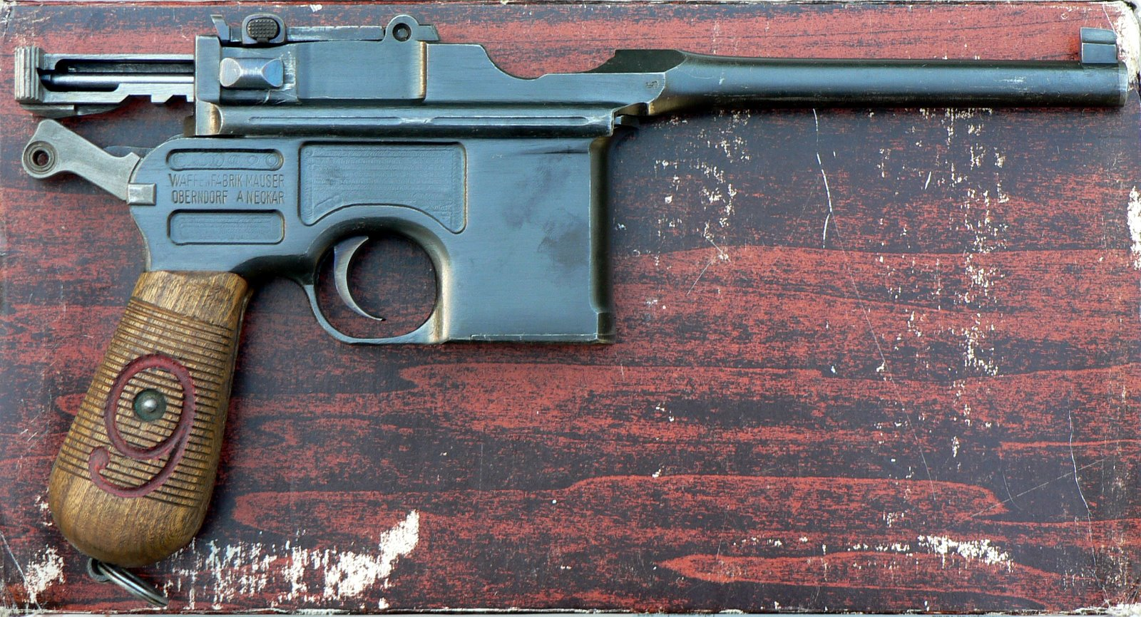 Mauser C96 M1916 "Red 9"